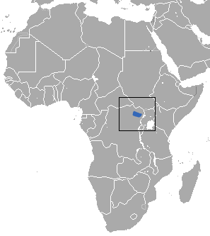 Lesser Forest Shrew (Sylvisorex oriundus) range